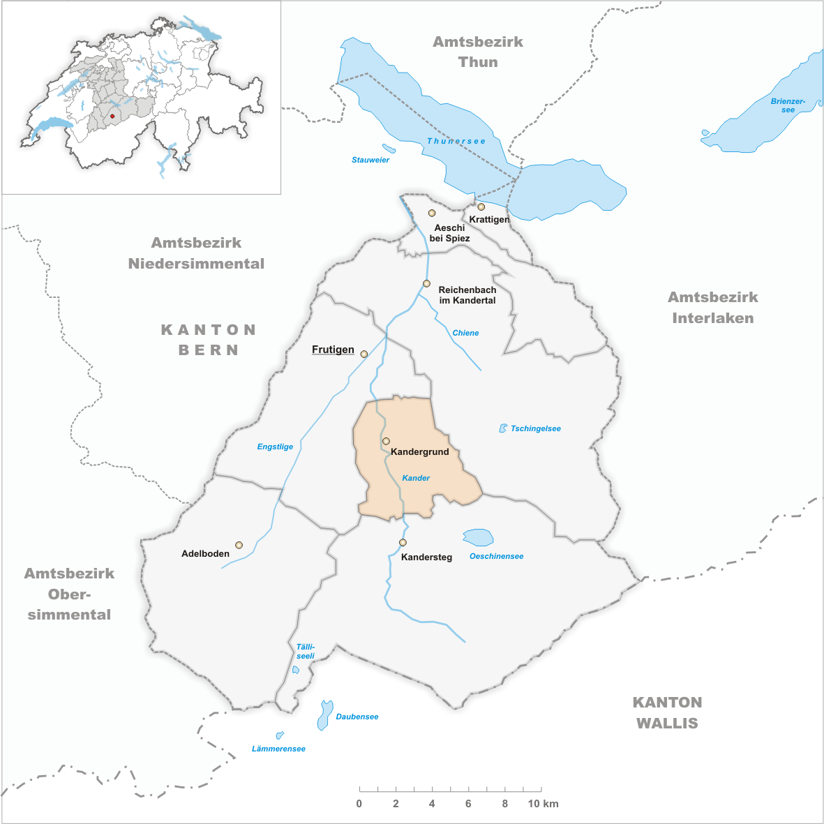 Municipality Kandergrund